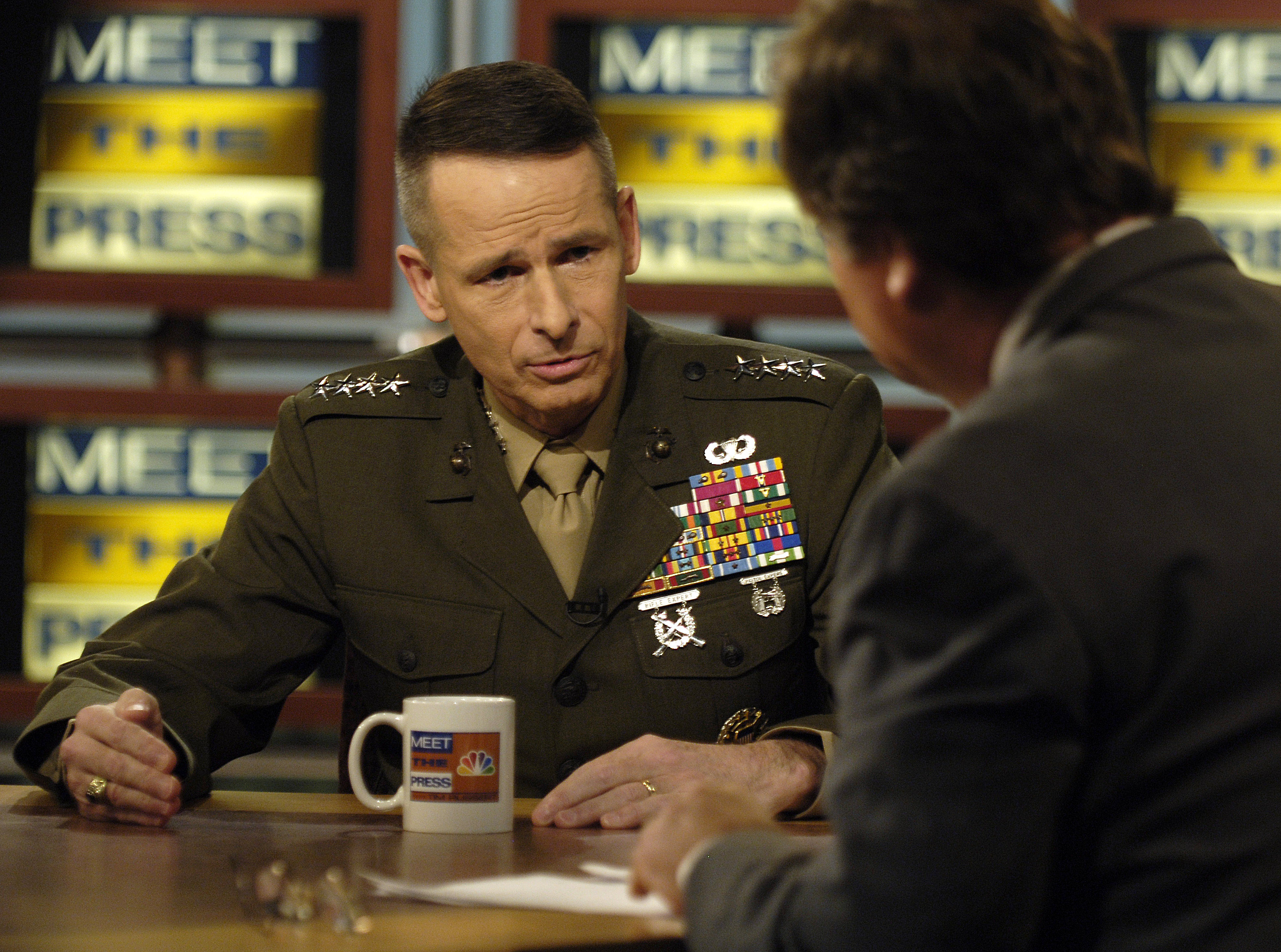 Washington, D.C. (March 5, 2006) - Chairman of the Joint Chiefs of Staff, U.S. Marine Corps, Gen. Peter Pace, responds to a question asked by host Tim Russert during an interview on NBC's Meet the Press. U.S. Air Force photo by Staff Sgt. D. Myles Cullen (RELEASED)